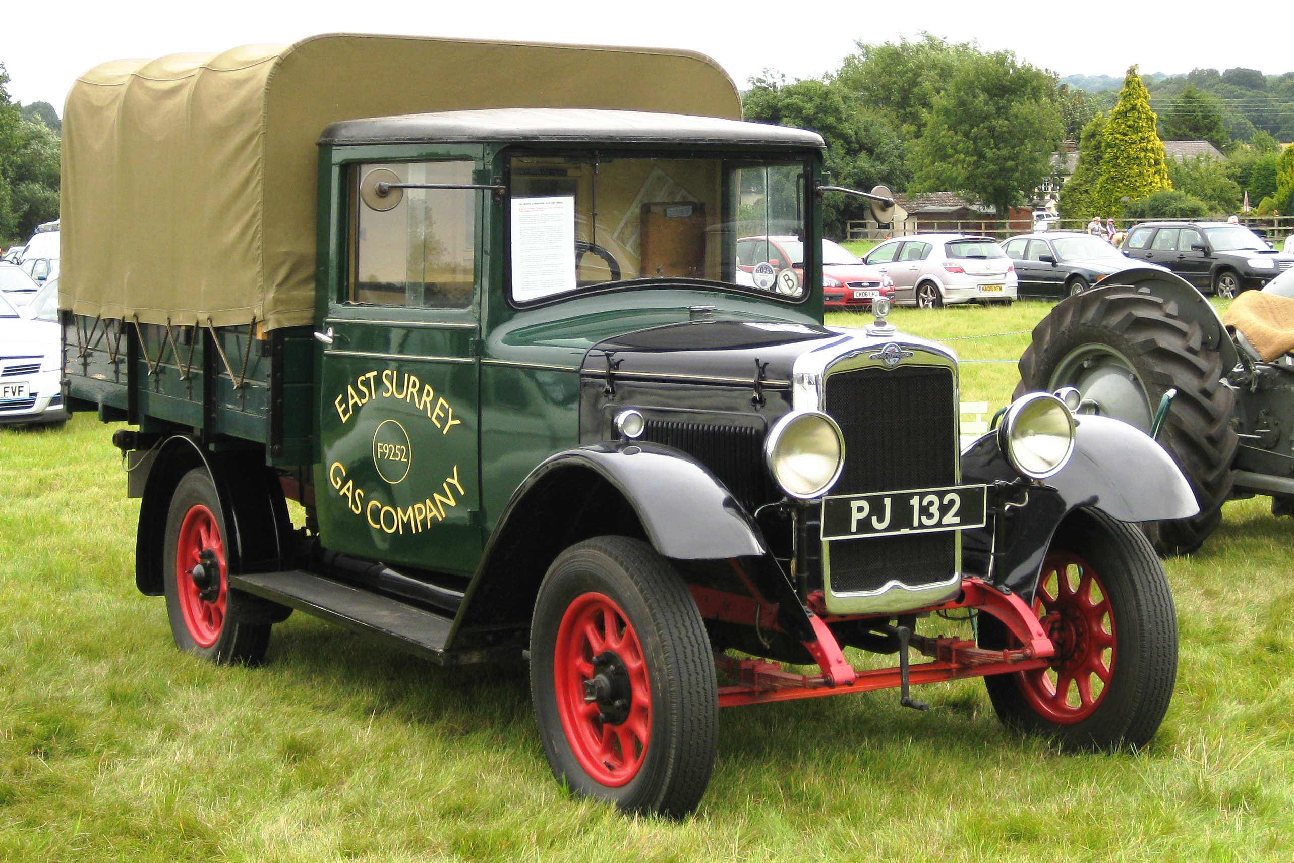 Morris Commercial light truck. (DVLA) first registered 1 September 1931, 1802 cc